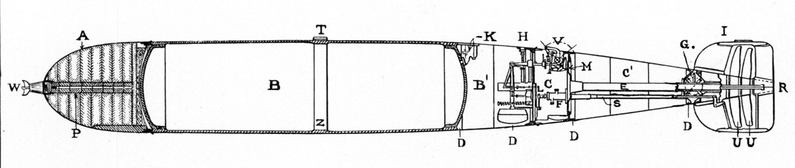 The MkI, MkII and MkIII Whitehead torpedo's General Profile as illustrated in The Whitehead Torpedo, U.S.N. published in 1898. The manual covers the 45c/m. x 3.55m. Mark I, Mark II, Mark III and and 45c/m. x 5m. Mark I. A war-head. B air-flask. B' immersion-chamber. CC' after-body. C engine-room. DDDD drain-holes. E shaft-tube. F steering-engine. G bevel-gear box. H depth-index. I tail. K charging and stop-valves. L. locking-gear. M engine bed-plate. P primer-case. R rudder. S steering-rod tube. T guide-stud. UU propellers. V valve-group. W war nose, comprising fuse, safety, and exploder. Z strengthening-band.